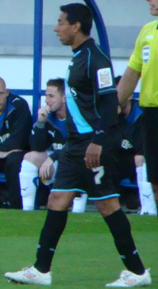 Nolberto Solano. Image cropped from original at Flickr.